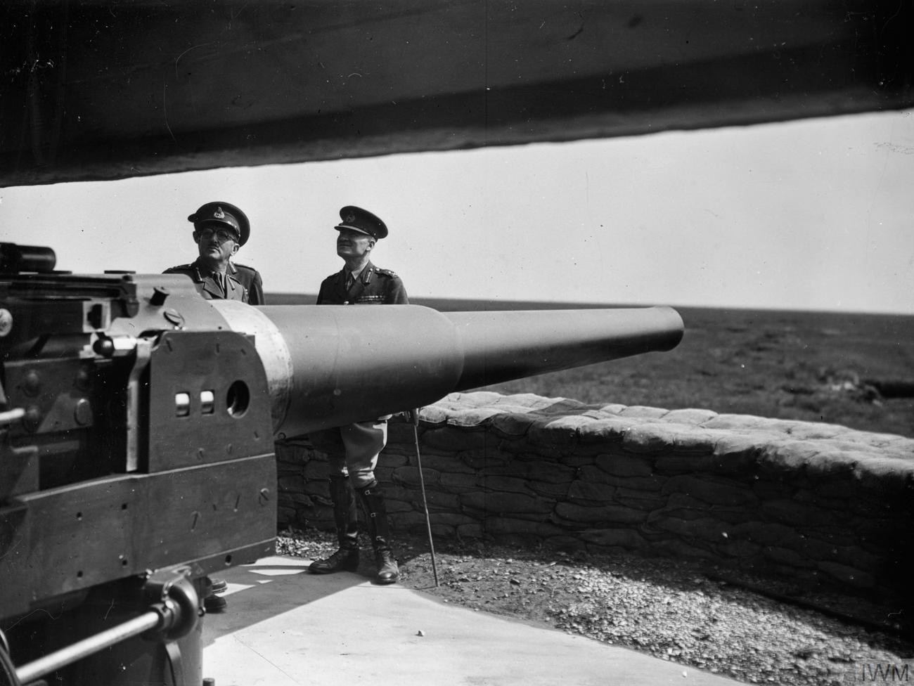 The British Army in the United Kingdom 1939-45 Commander in Chief Home Forces, General Sir Alan Brooke, during a visit to Northern Command with the Commander in Chief, Sir Ronald Adam, conferring round a 6 inch Coastal Defence Gun, August 1940.